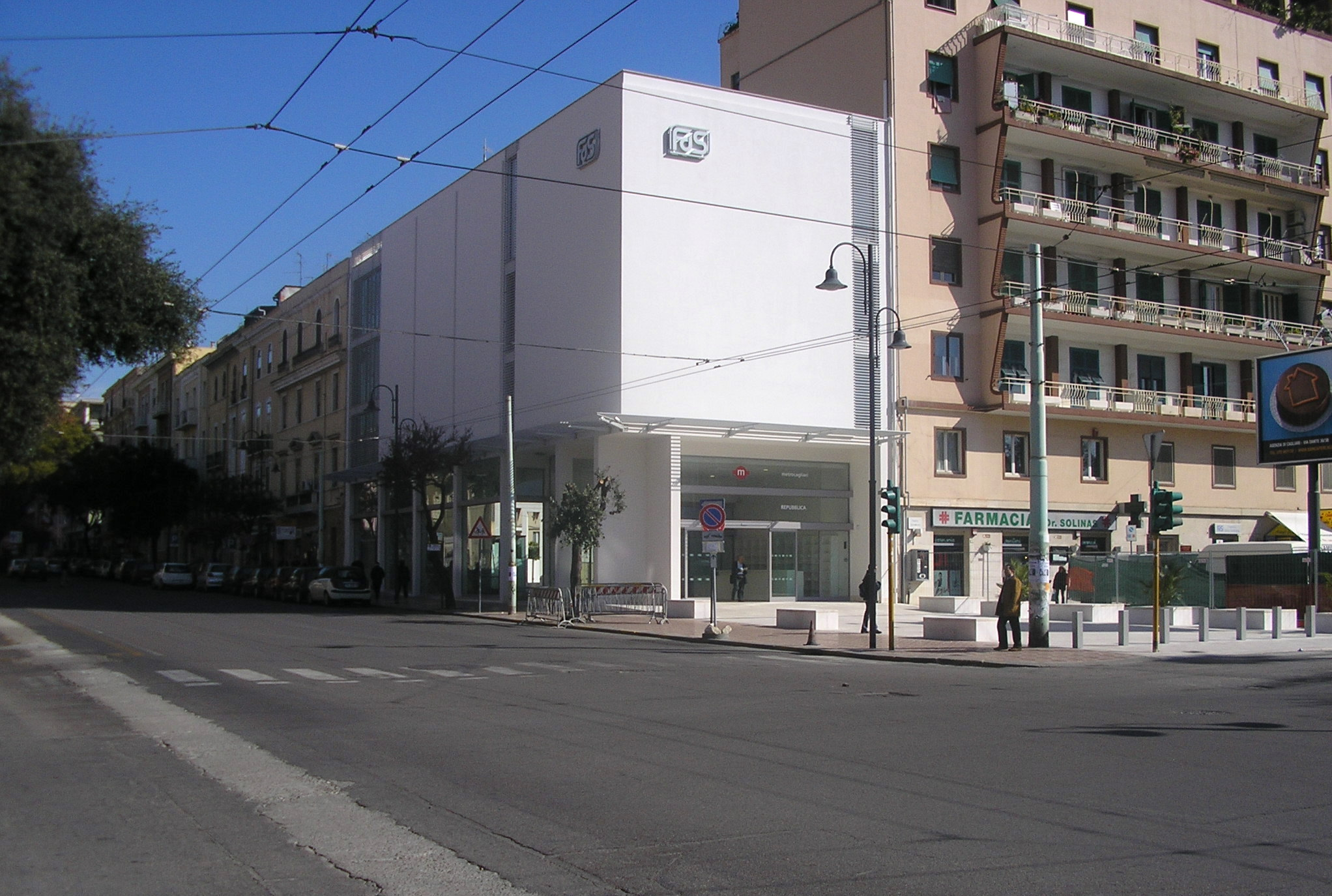 The Piazza Repubblica terminus of the line 1 of the light railway of Cagliari, Sardinia, Italy, opened in 2008. The new station is build where until 2003 there was the old railway terminus of the line Cagliari-Isili